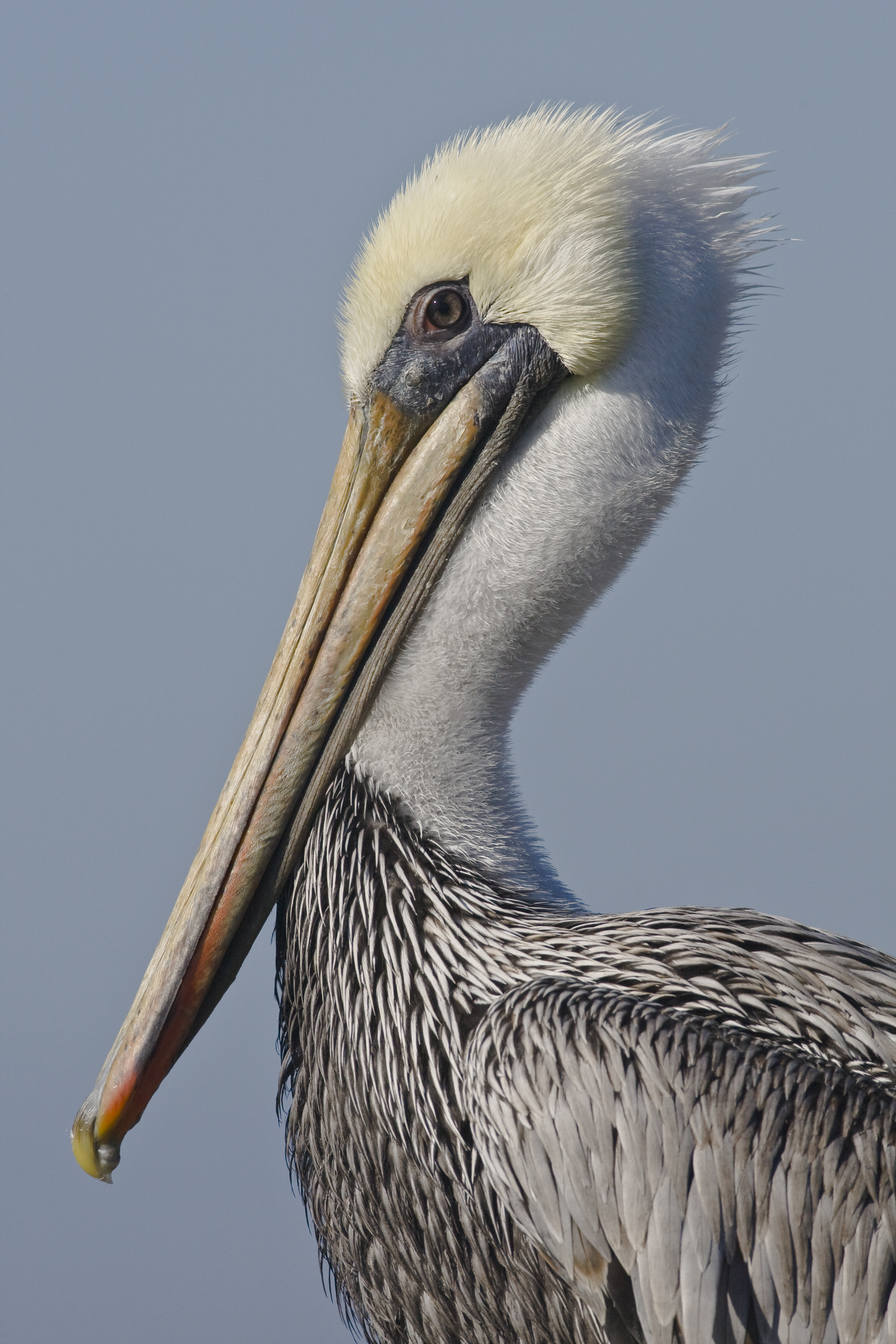 Brown Pelican (Pelecanus occidentalis) (bird) in Morro Bay, CA, Embarcadero Tidelands Park area, Morro Bay, CA Nov. 22, 2007 22nov2007 Photo by Mike Baird, Canon 1D Mark III with 600mm IS lens on tripod taken from shore - Taken in RAW with C. Fn II-3 Enabled for Highlight Tone Priority ? helps retains tonality on the whites.